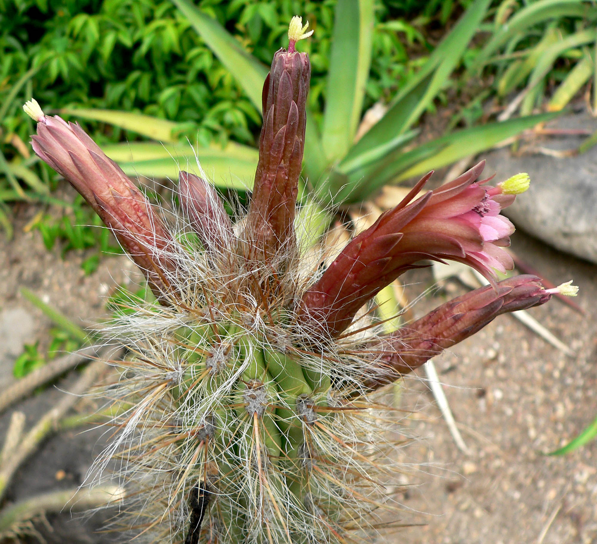 Photo of Oreocereus fossulatus var. rubrispinus at the University of California Botanical Garden